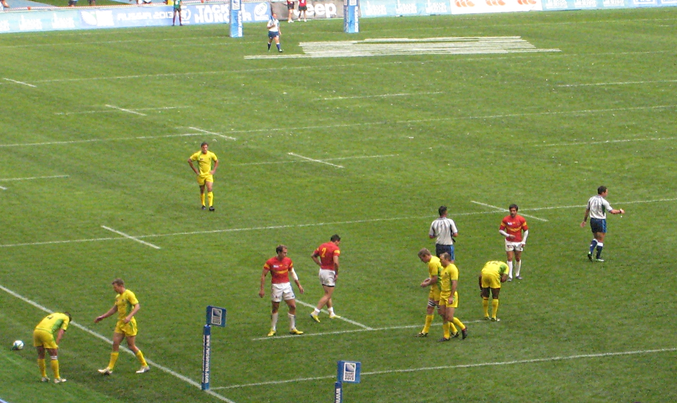 Australia form a lineout against Spain at the 2013 Rugby World Cup Sevens